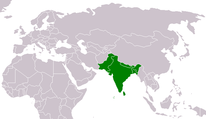 South Asia